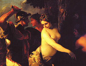 "Rinaldo in the Magic Woods". Filippo Zaniberti.